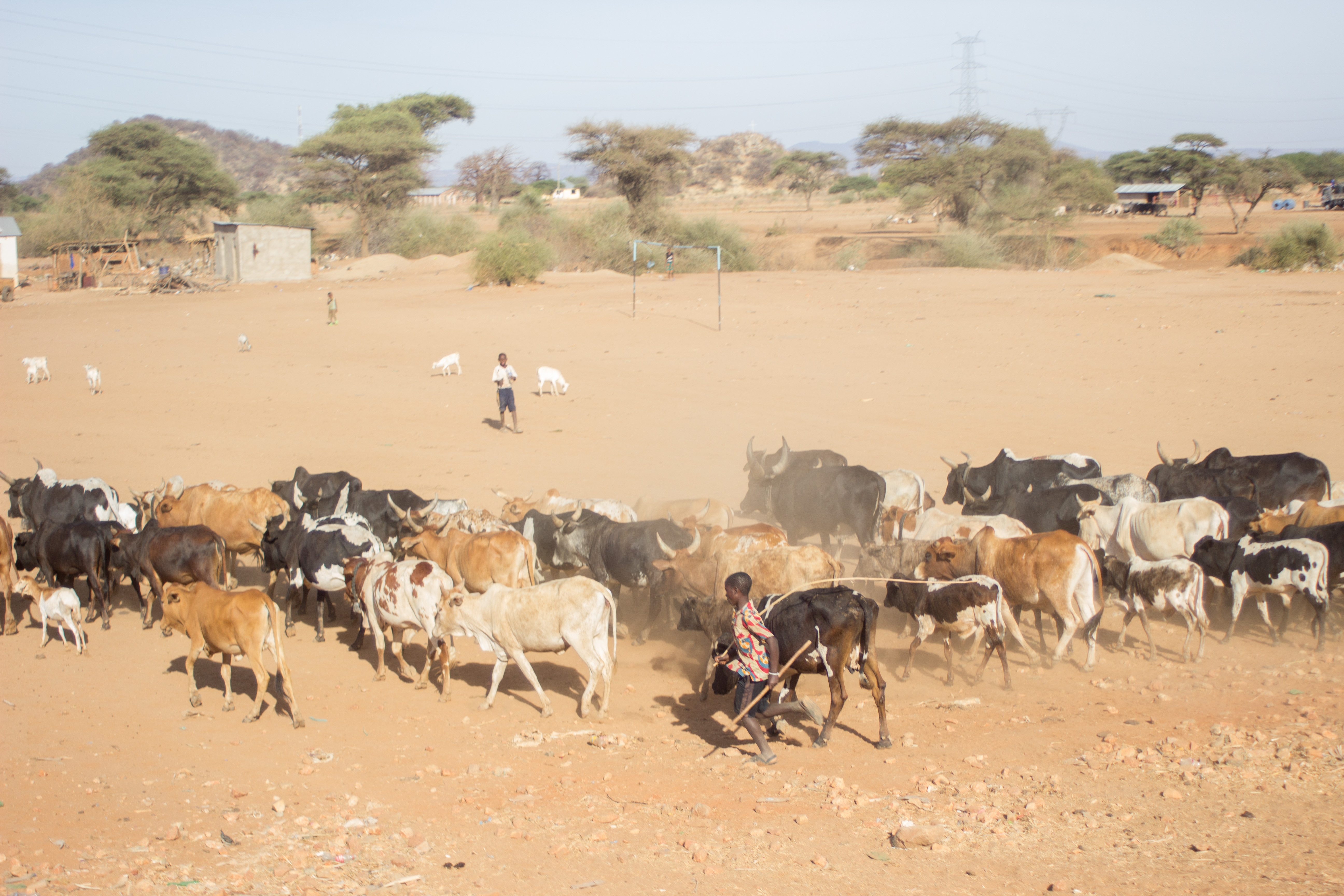 This is an image of "African people at work" from Tanzania